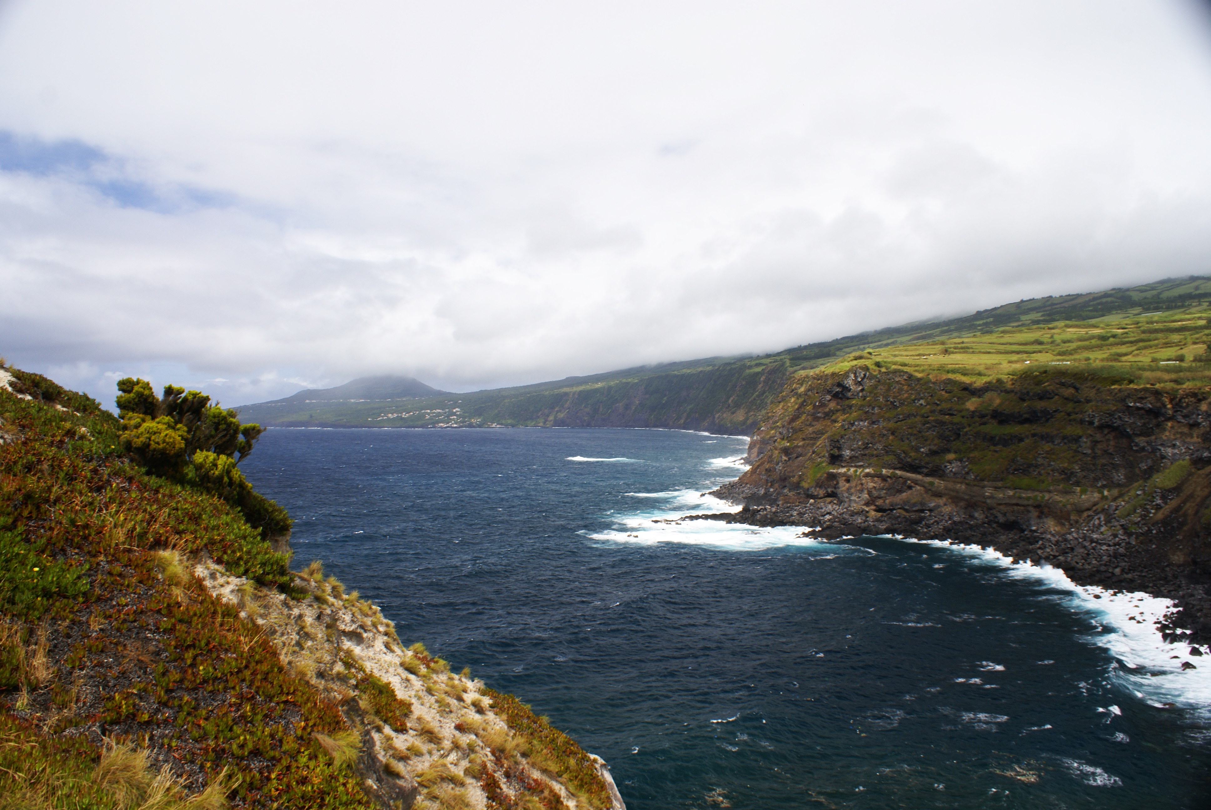 Morro de Castelo Branco, aspectos da costa próxima 1, Castelo Branco, concelho da Horta, ilha do Faial, Açores, Portugal